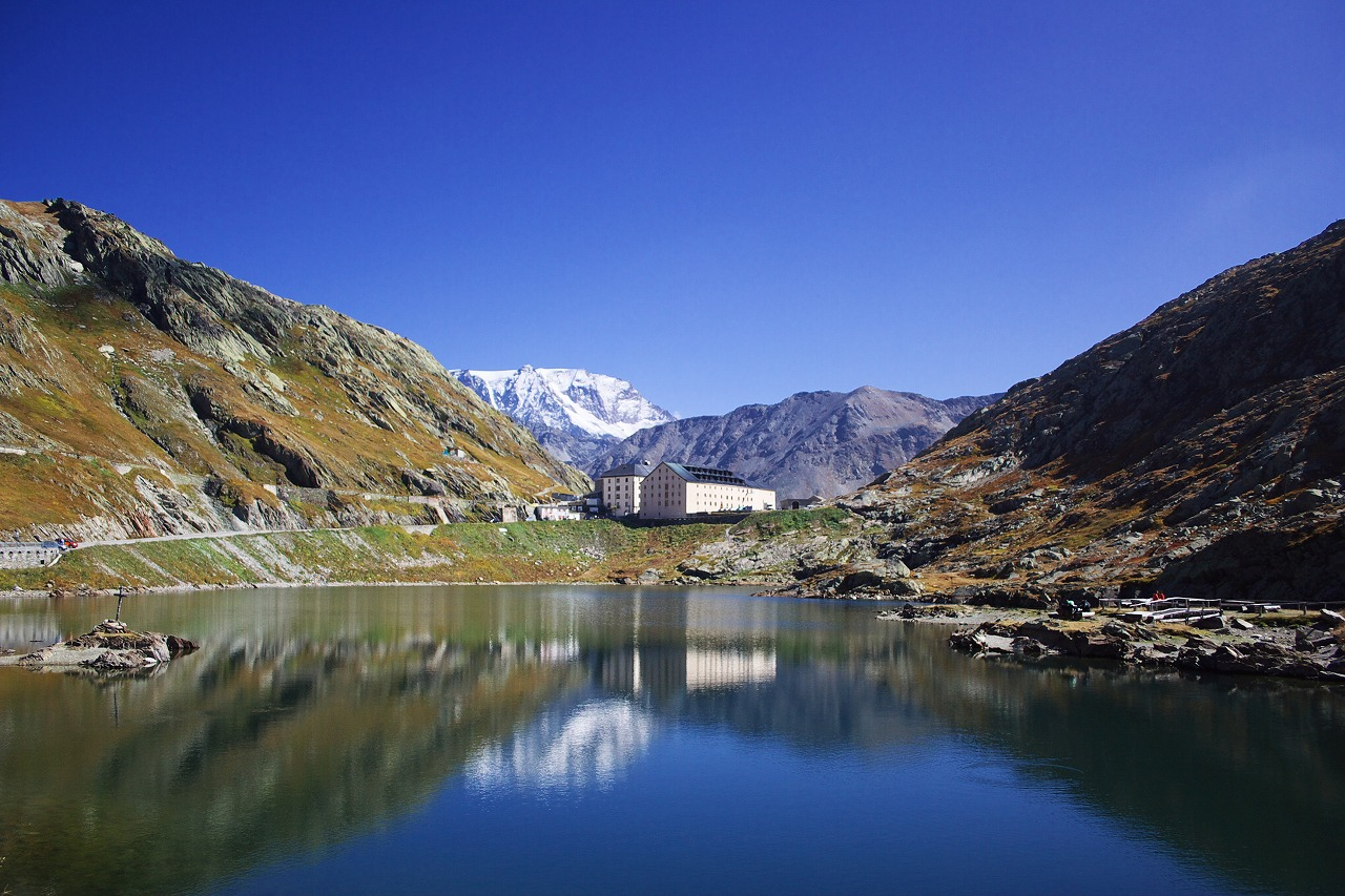 The Great St Bernard Pass and Hospice from the lake